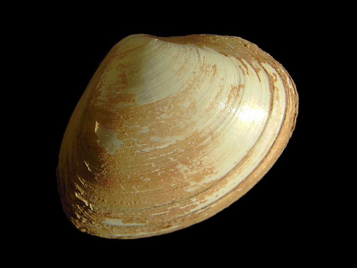 A thick trough shell on board of the RV Belgica.